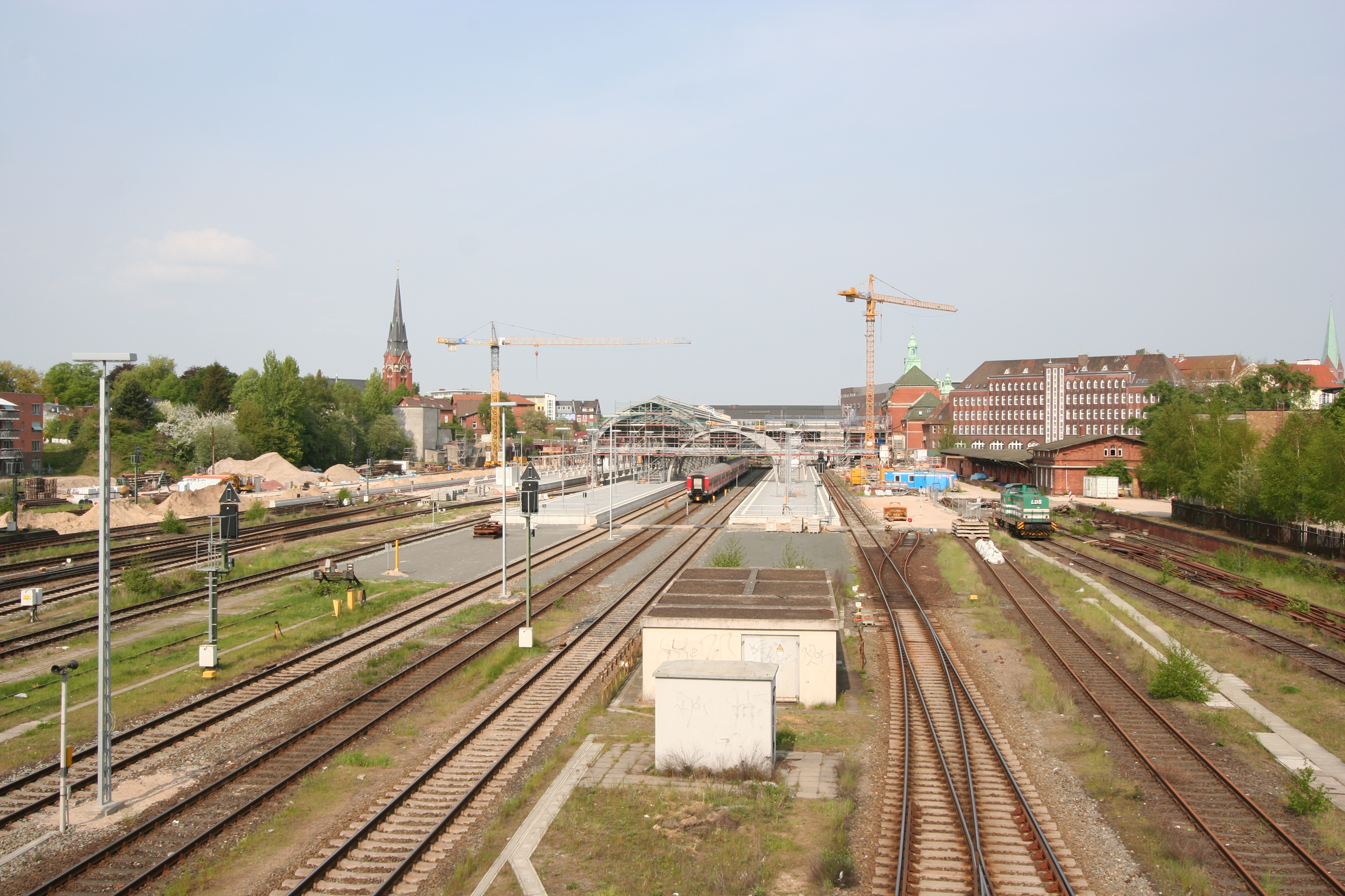 The Lübeck railway station is getting modernised. / Der Lübecker Bahnhof wird modernisiert.